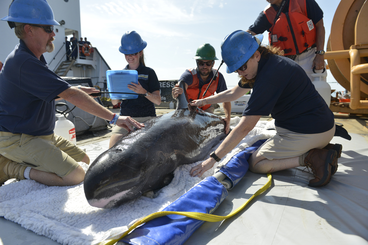 Teams from the Institute of Marine Mammal Studies keep a pygmy killer whale hydrated while they prep it for release into the Gulf of Mexico, July 11, 2016. Personnel from National Oceanic and Atmospheric Administration, Navy Marine Mammal program and U.S. Coast Guard Cutter Cypress also participated in the mammal’s release. U.S. Coast Guard photo by Petty Officer 3rd Class Lexie Preston.